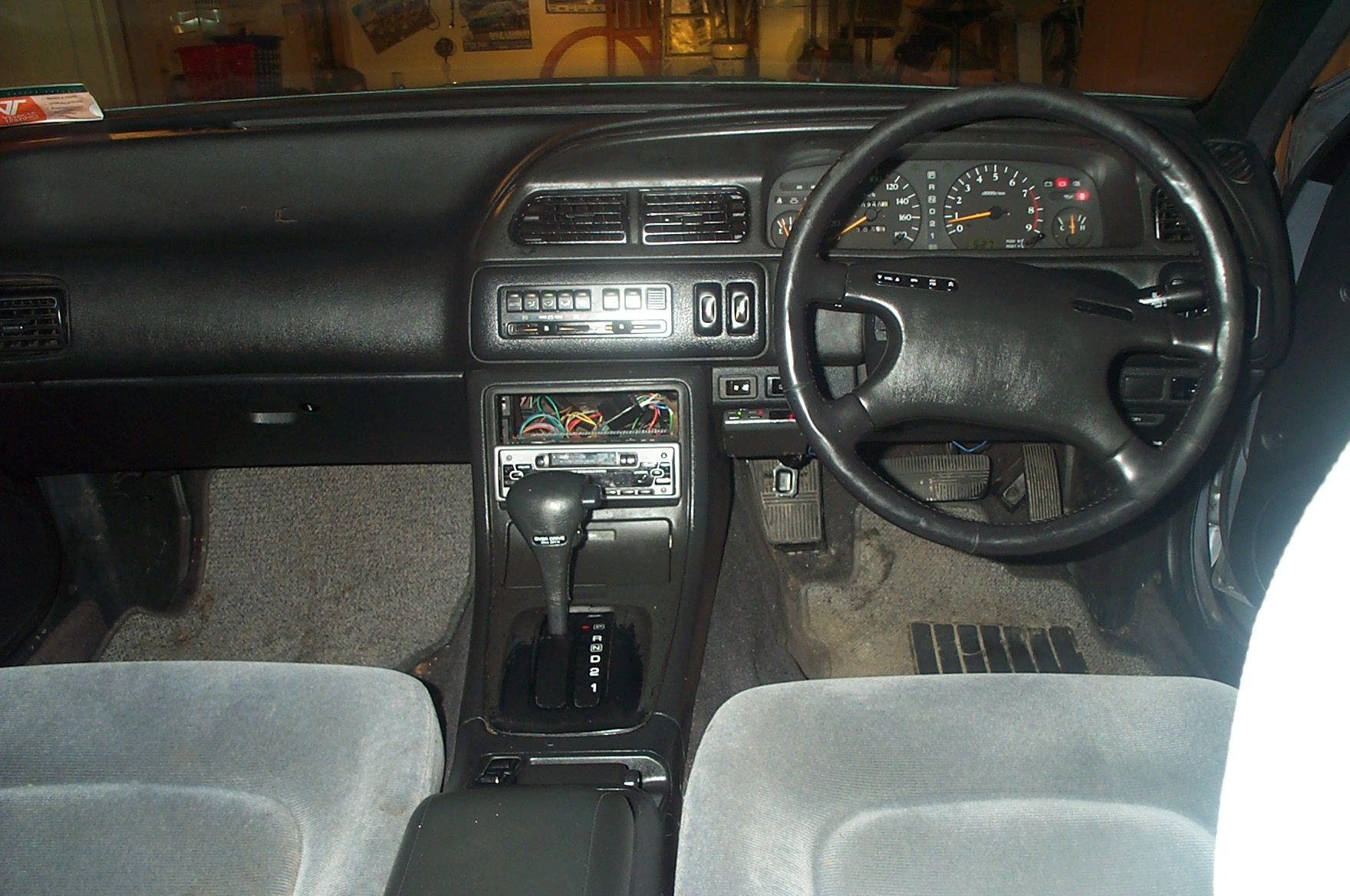 The dashboard of a 1992 Nissan Cefiro from the interior of the car.